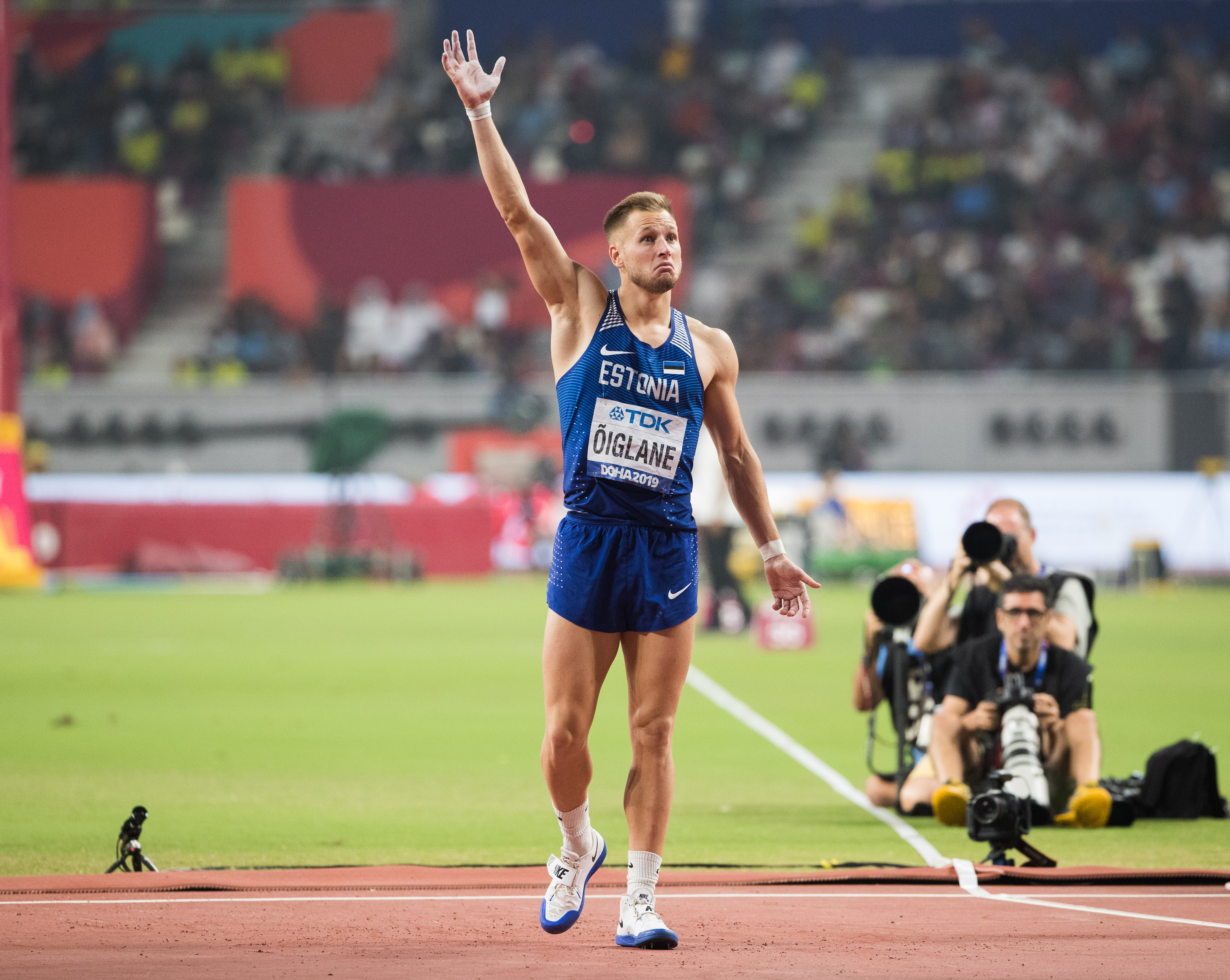 Doha_Katar_03_10_19_Janek